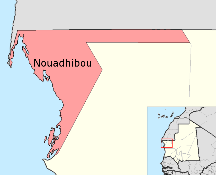 Summary of the original work is: Map of the Dakhlet Nouadhibou department of Mauritania. Created by Rarelibra 20:10, 28 September 2006 (UTC) for public domain use, using MapInfo Professional v8.5 and various mapping resources. I added a larger typeface for the name on the map. - User:McTrixie